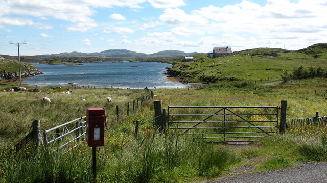 Great Bernera, Outer Hebrides, Scotland. Tobson, Great Bernera Looking south along the narrow sea loch of Tob Bhalasaigh.